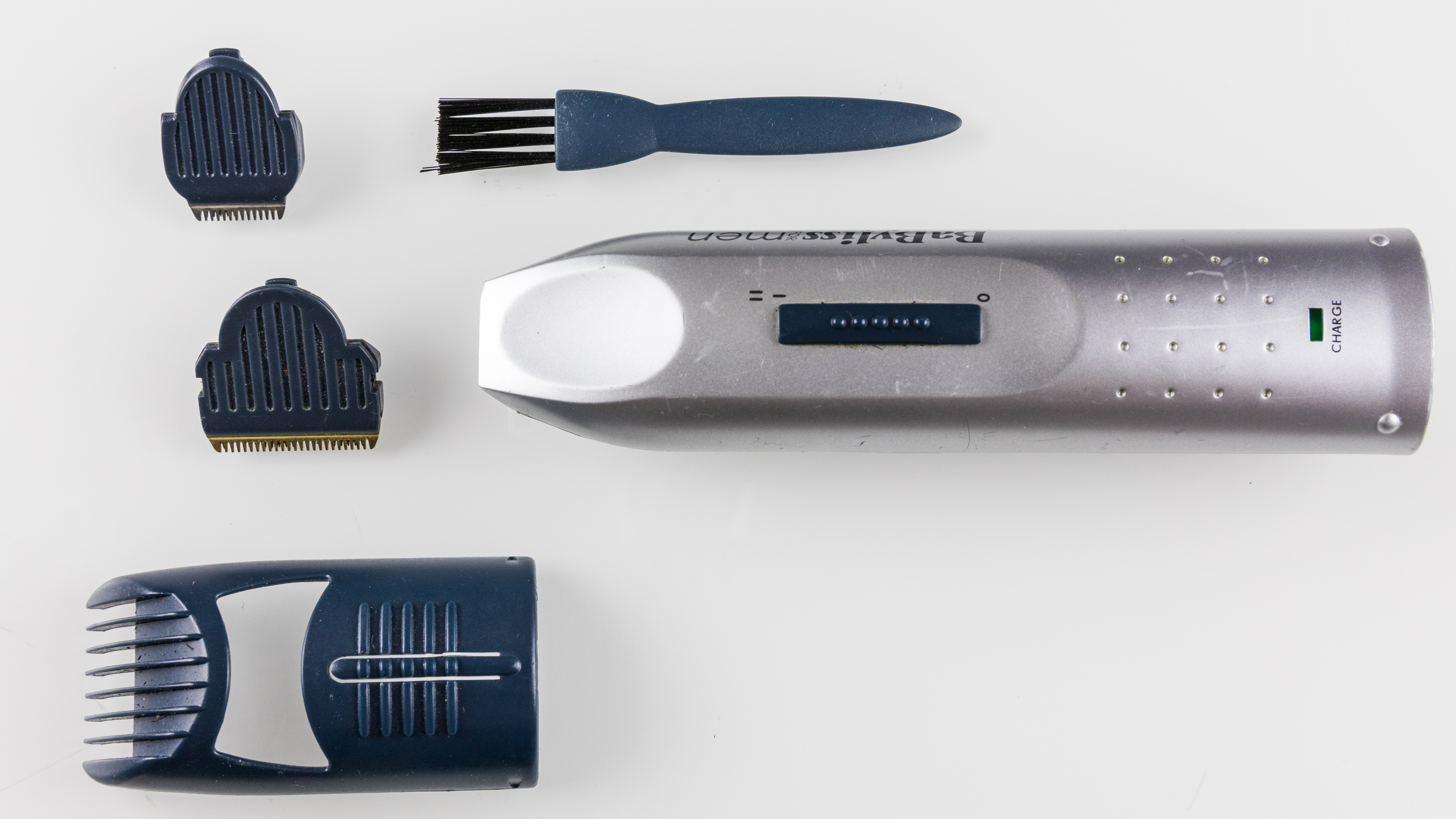 BaByliss for Men T47 - Hair clipper